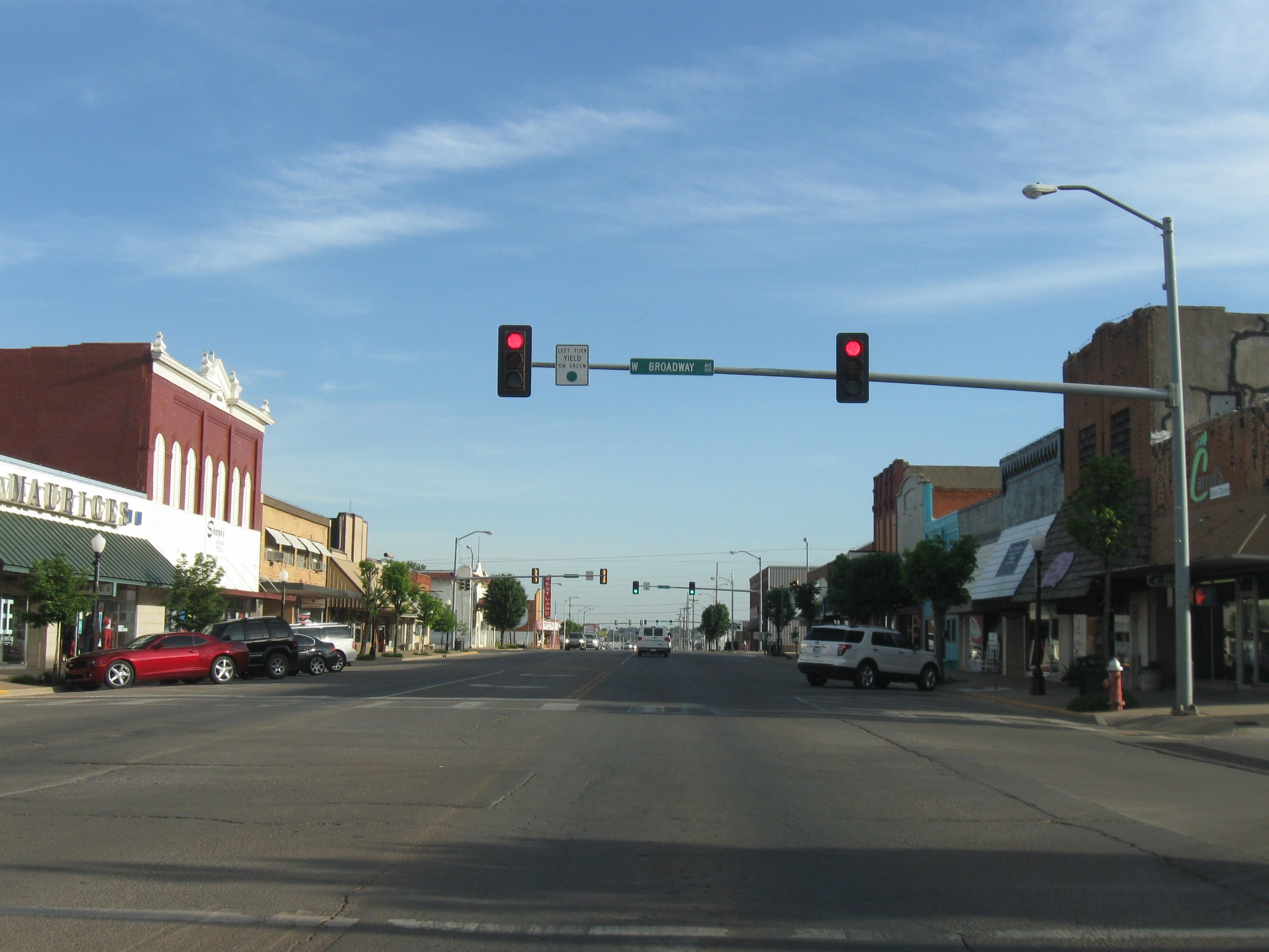 SH-6 southbound in downtown Elk City, Oklahoma.